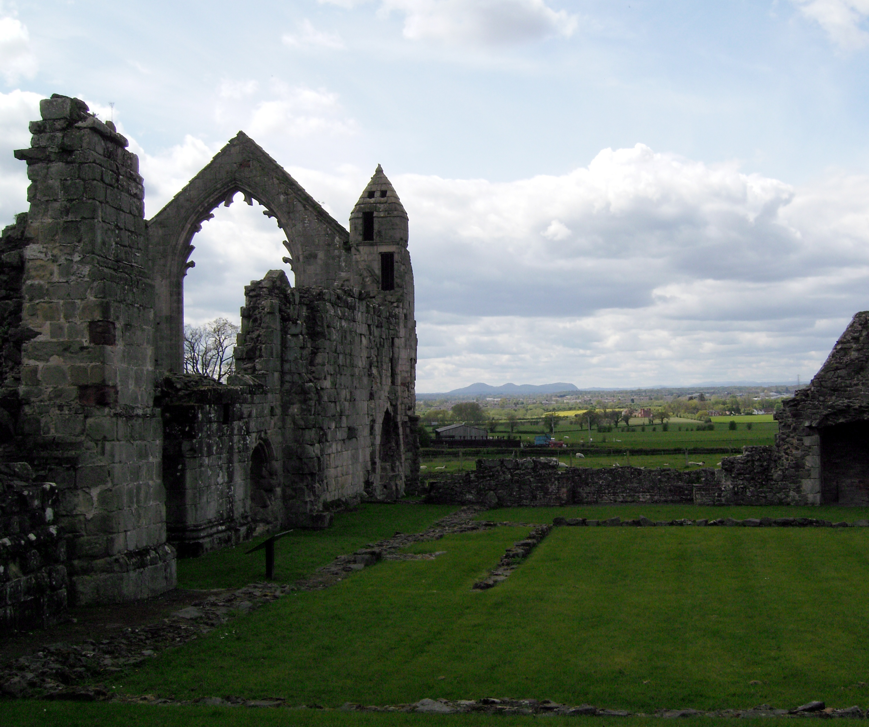 The Wrekin seen across the small cloister. Haughmond Abbey, Shropshire.